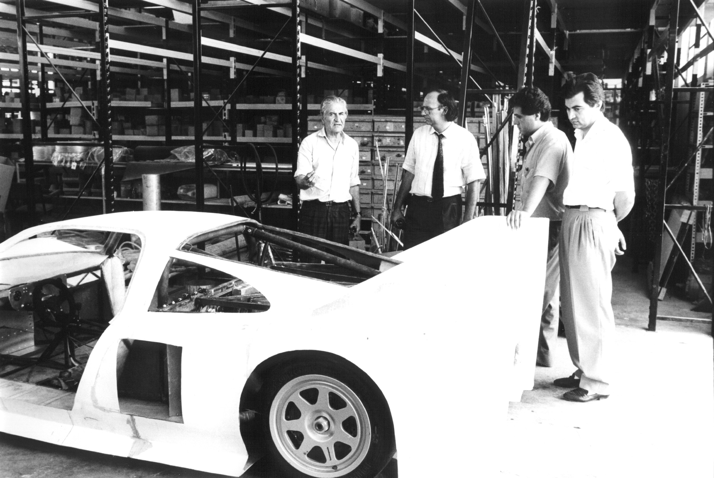 Giotto Bizzarrini (left) at work to design the first Picchio car, 1989. On his right is Francesco Di Pietrantonio, founder of Picchio.